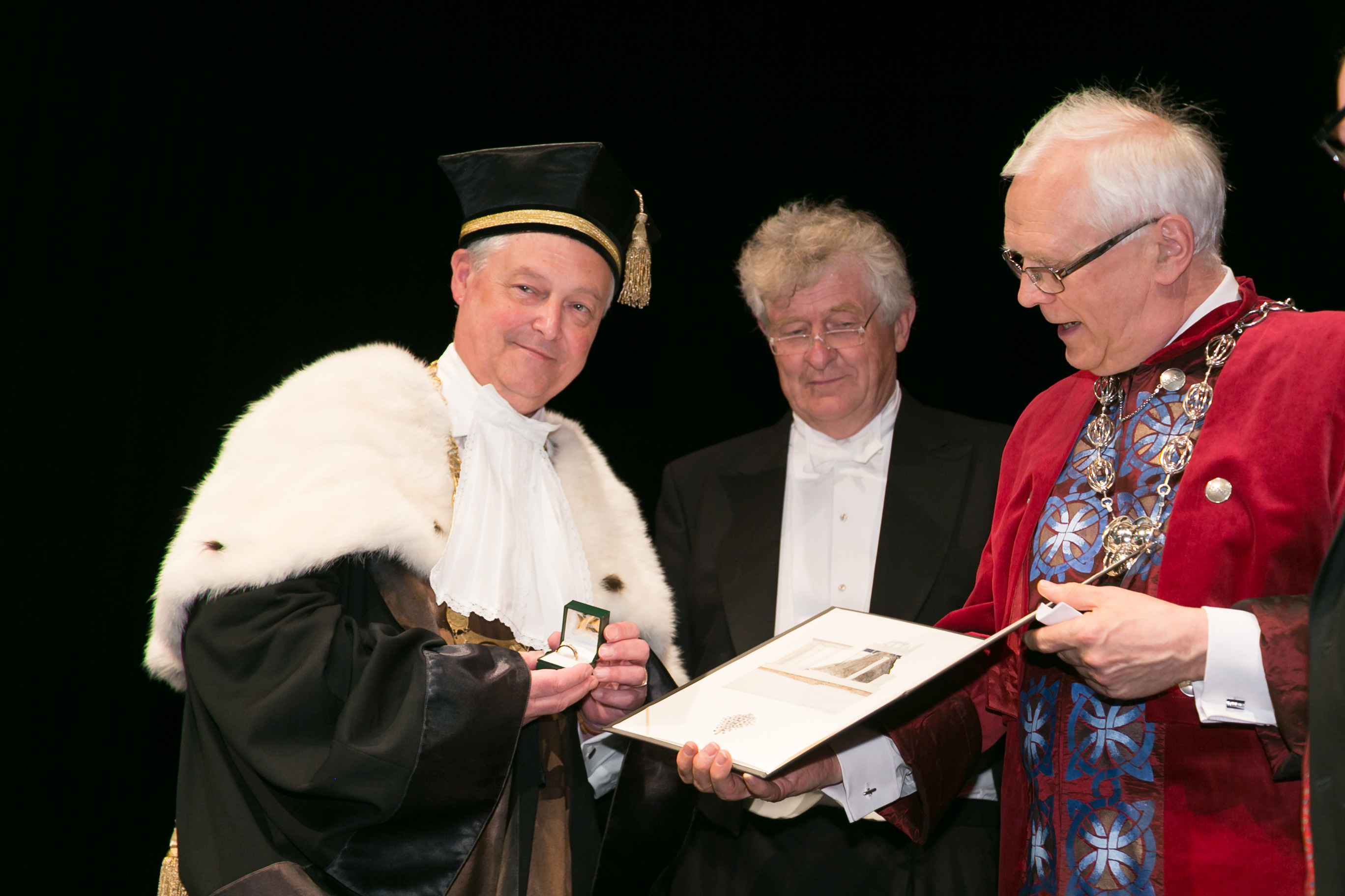 Professor Sergio Paoletti being awarded an honorary doctorate at the Norwegian University of Science and Technology (NTNU) in May 2013. Left to right: Paoletti; master of ceremonies Truls Gjestland; rector Torbjørn Digernes